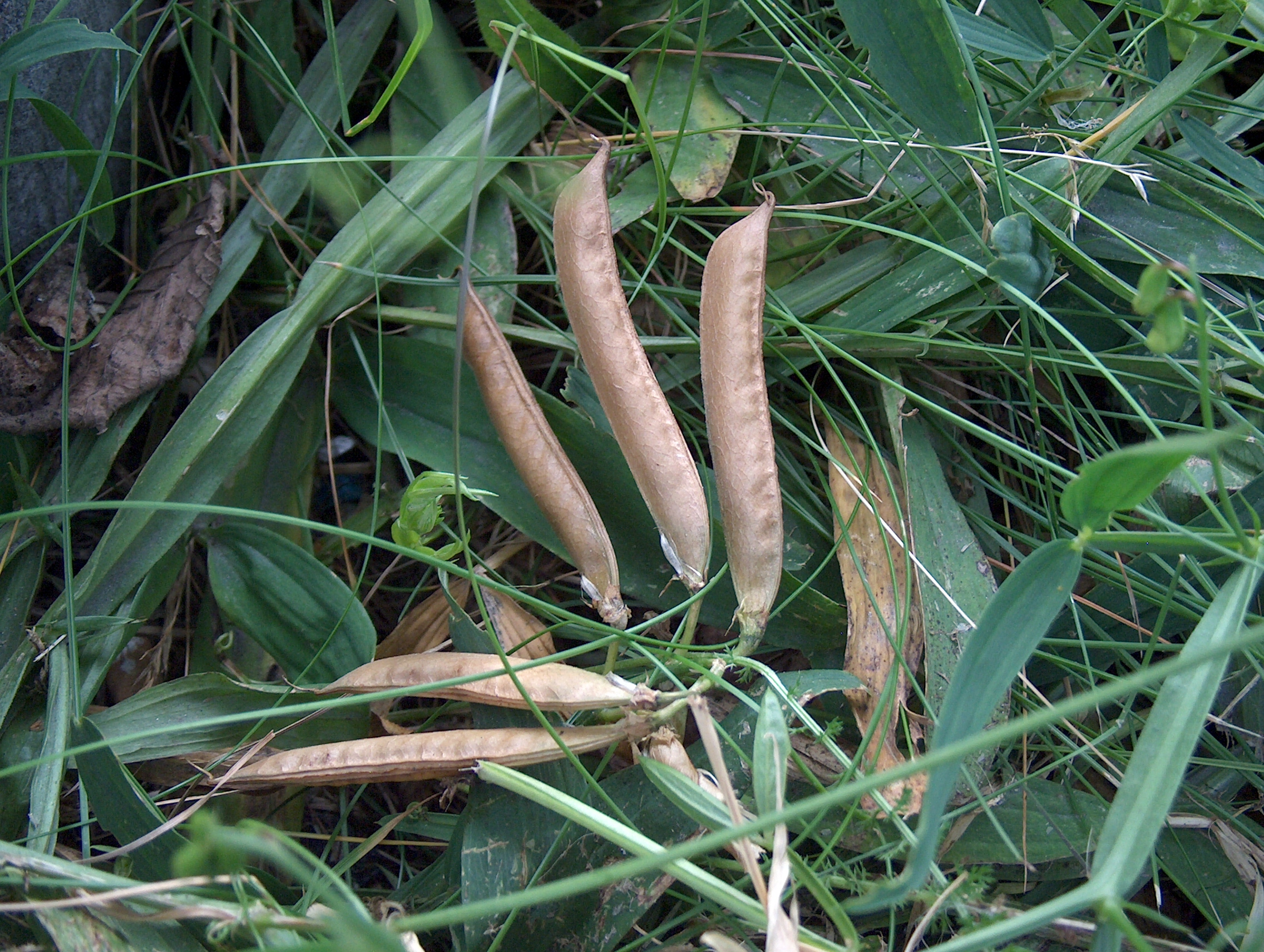 Wood Pea (Lathyrus sylvestris) in Kerava, Finland